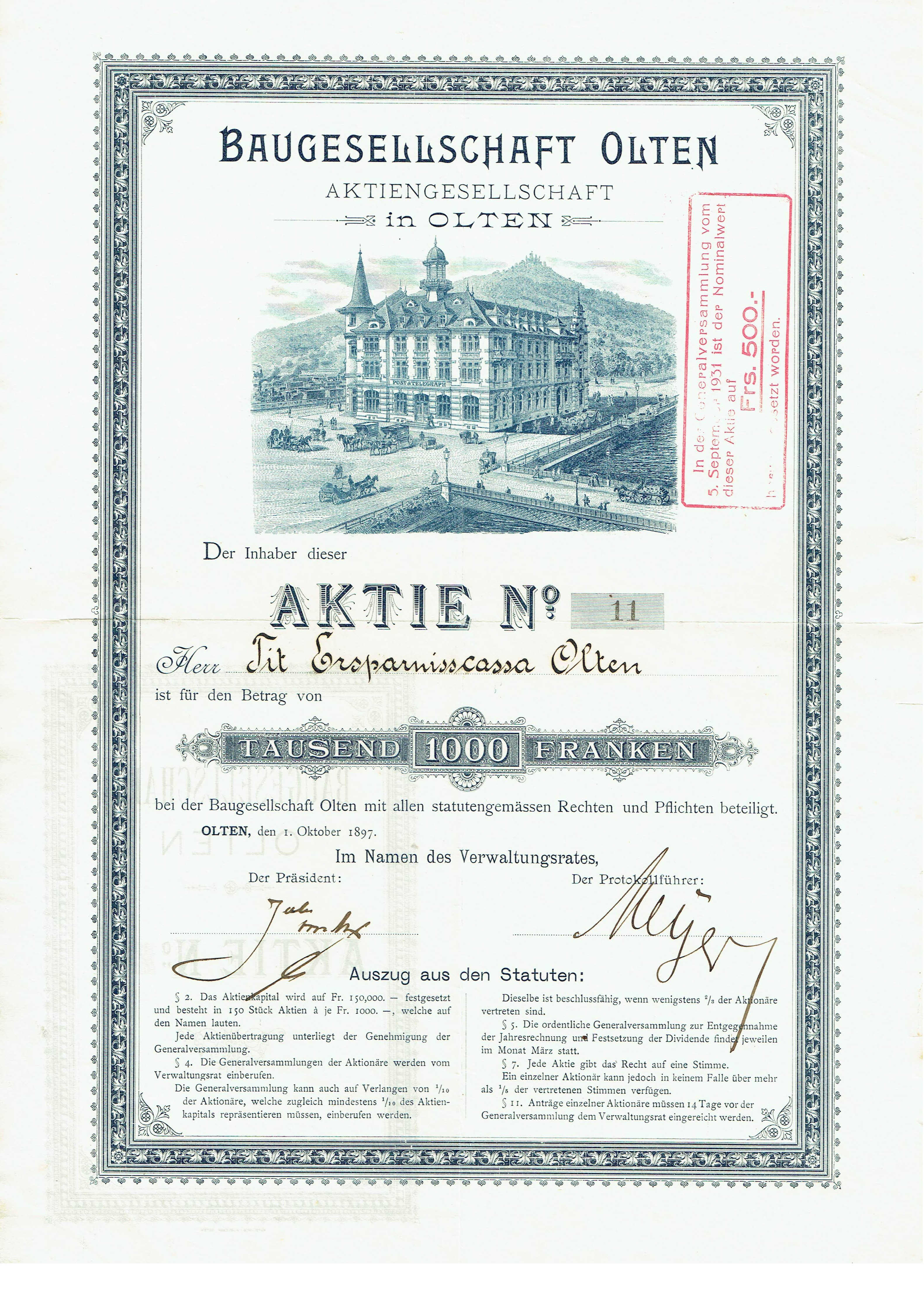 Share of the Baugesellschaft Olten AG, issued 1. October 1897